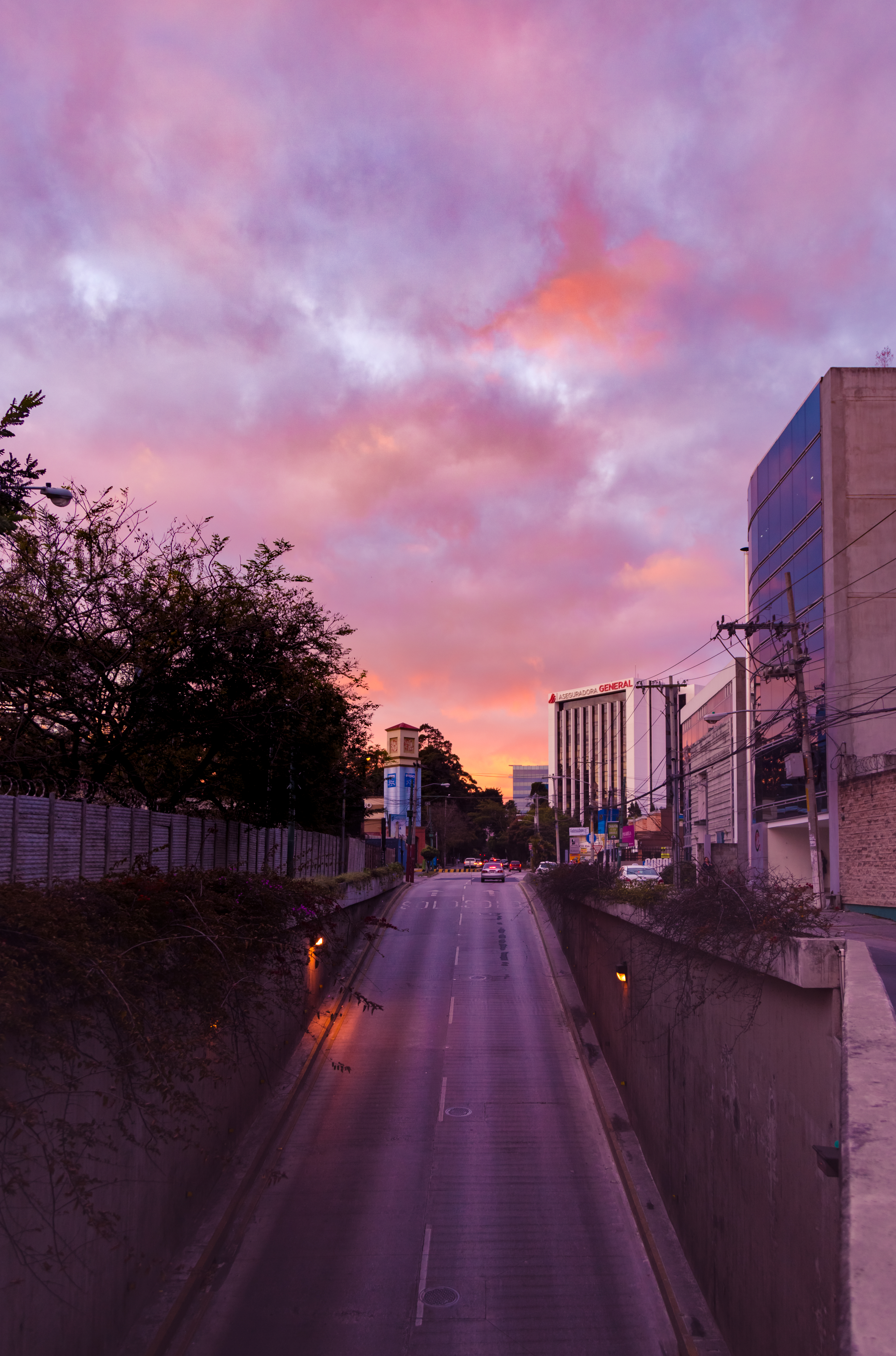 Sunrise in Guatemala City captured on January 4th 2018